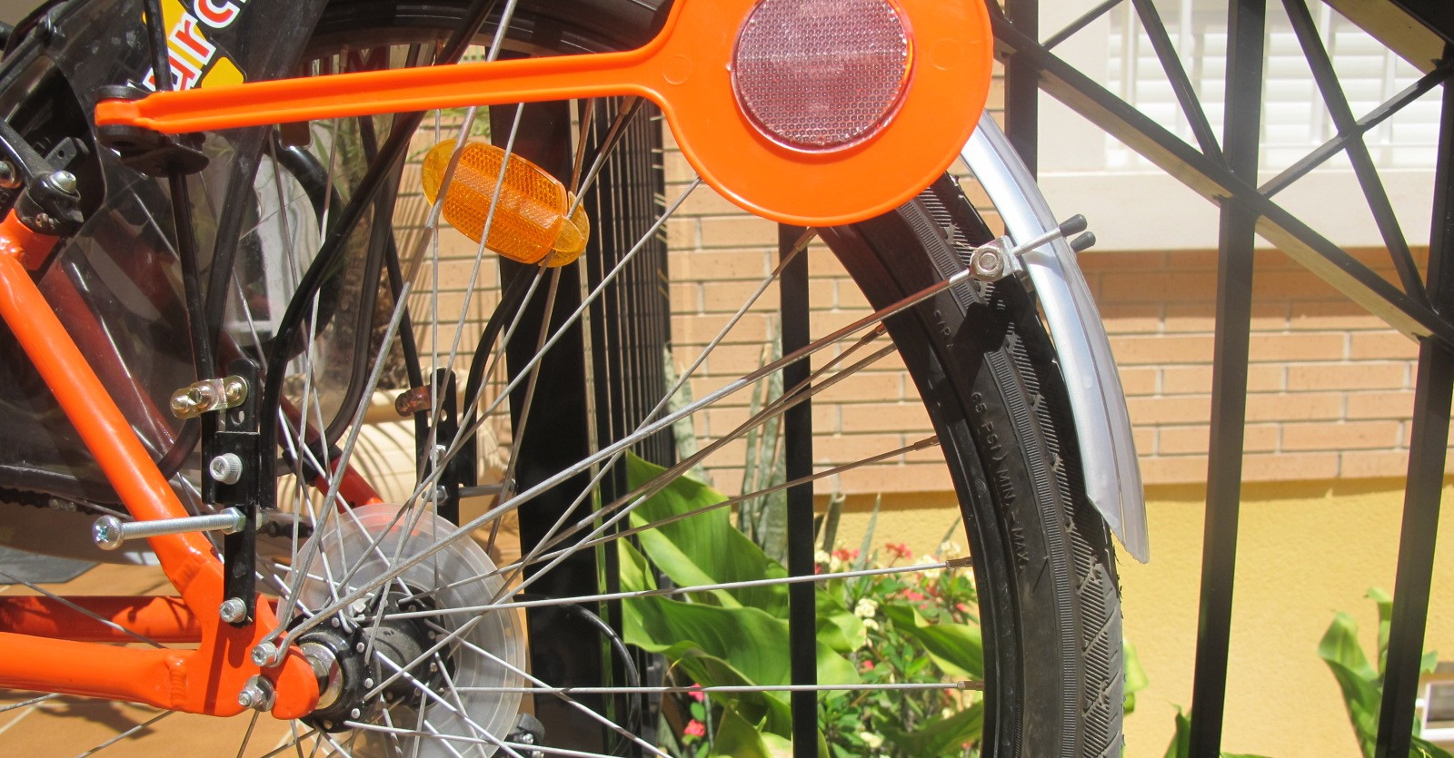 Bicycle footstool